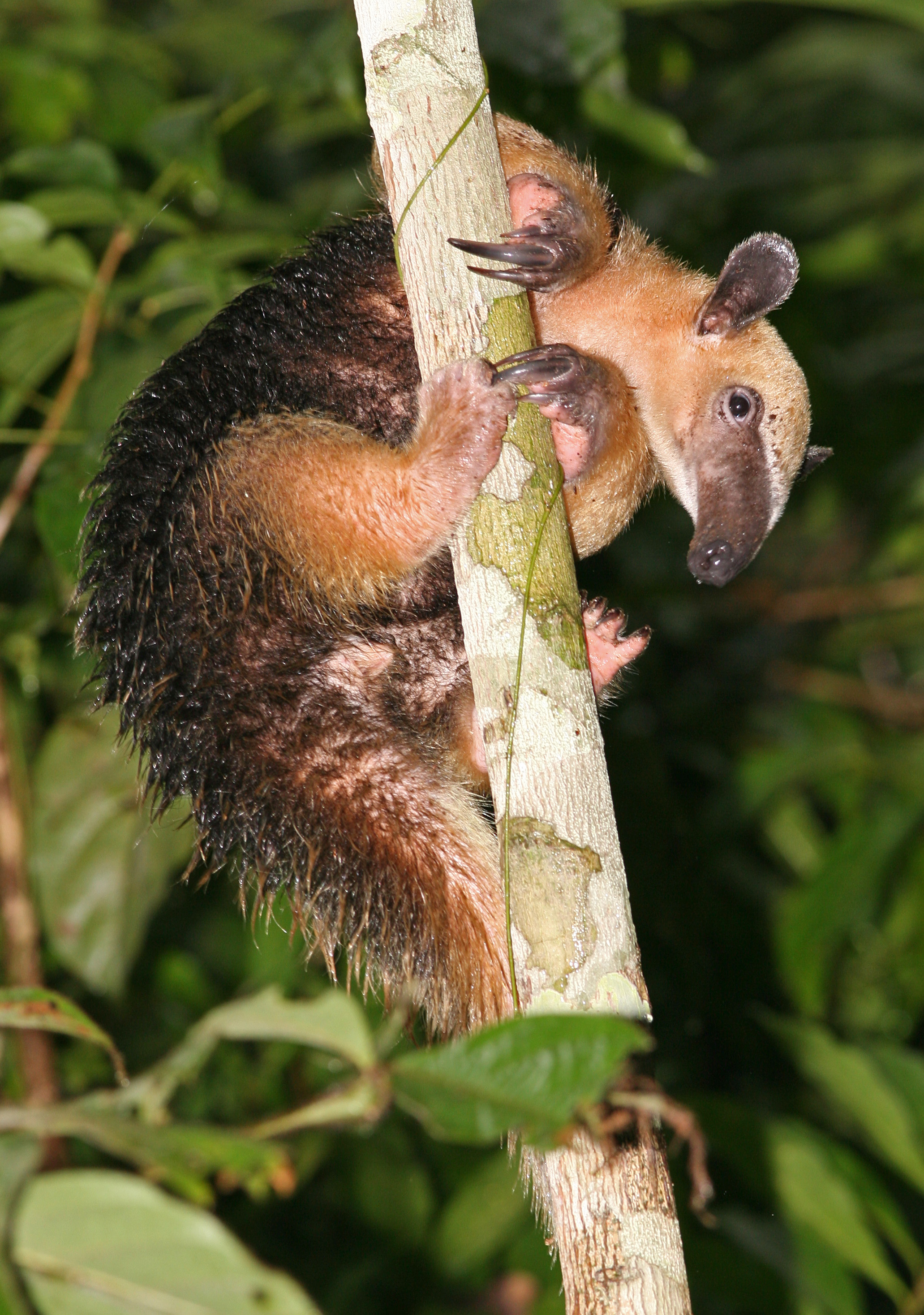 A Southern Tamandua in a small section of rain forest near Cacoal, Southern Brazil.